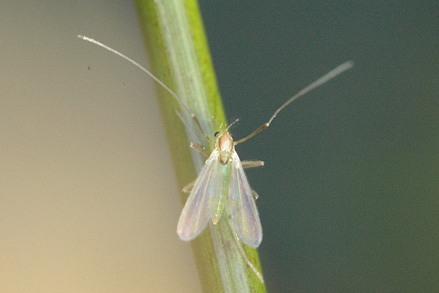 Picture taken in Commanster, Belgian High Ardennes . Species: male Tanytarsus sp.